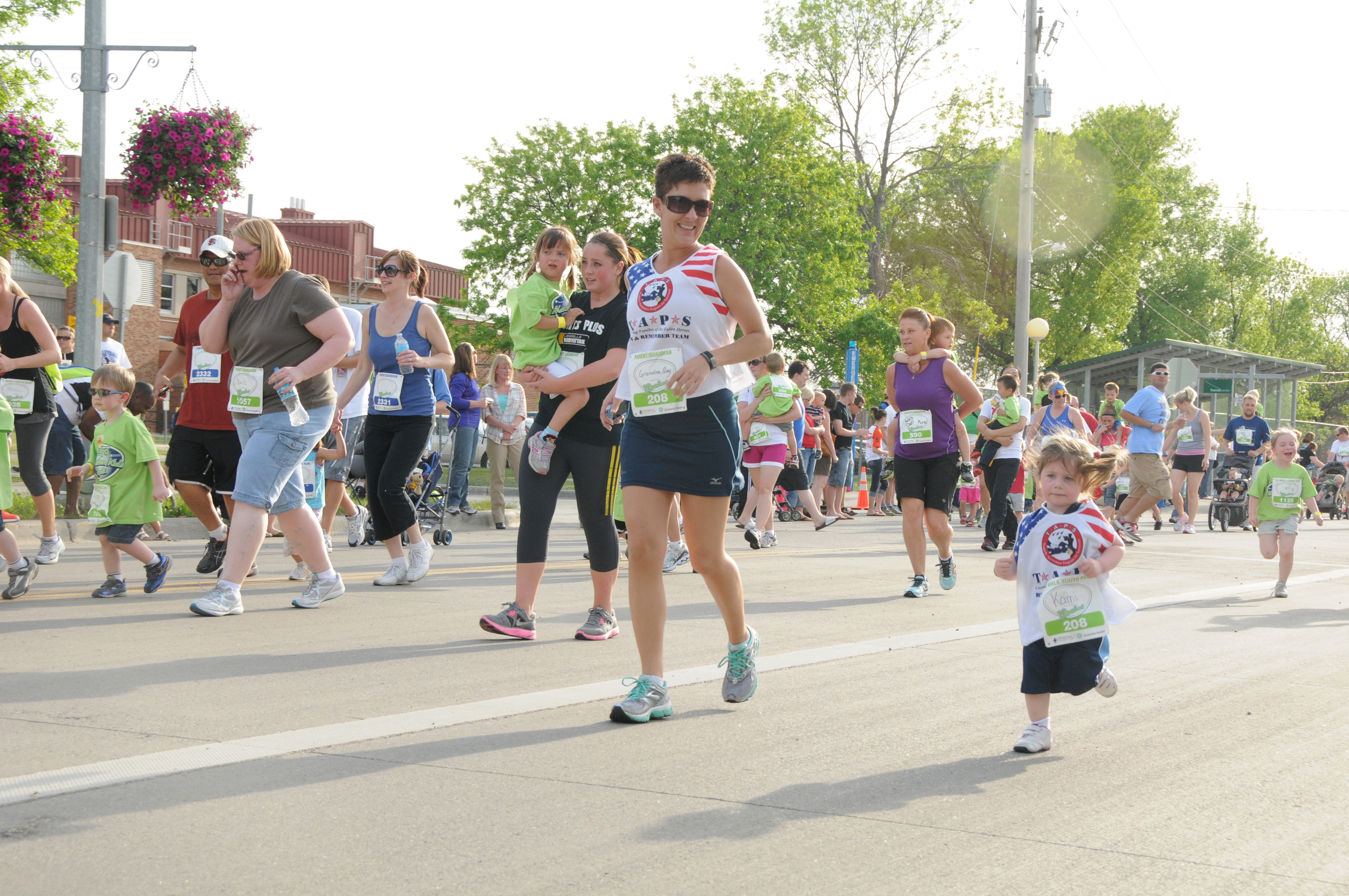 North Dakota Army National Guard Staff Sgt. Amy Wieser Willson, of West Fargo, N.D., number 208, runs with her step-granddaughter Kami during the Fargo Marathon youth run May 17, Fargo, N.D. The pair of runners are participating in various Fargo Marathon events over a three day period in memory of military service members who died while in service to our country and also to raise money for TAPS programs that aid their survivors. Willson is a member of the North Dakota National Guard and All-Guard Marathon teams and will be running the Fargo Marathon on the third day of the running events.